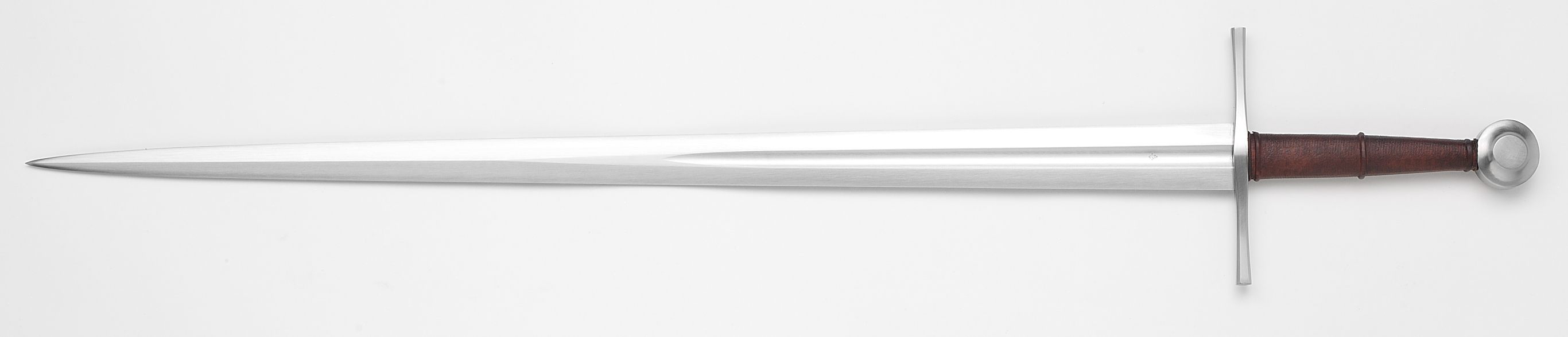 The Crecy Limited Edition Medieval War Sword